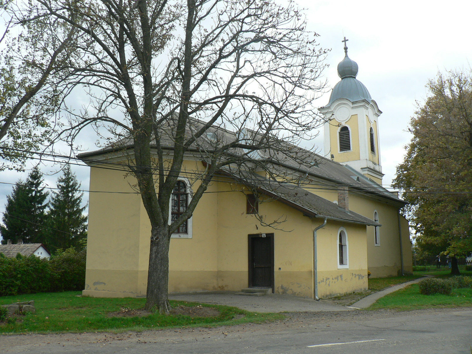 Szátok, a templom a főút felől nézve